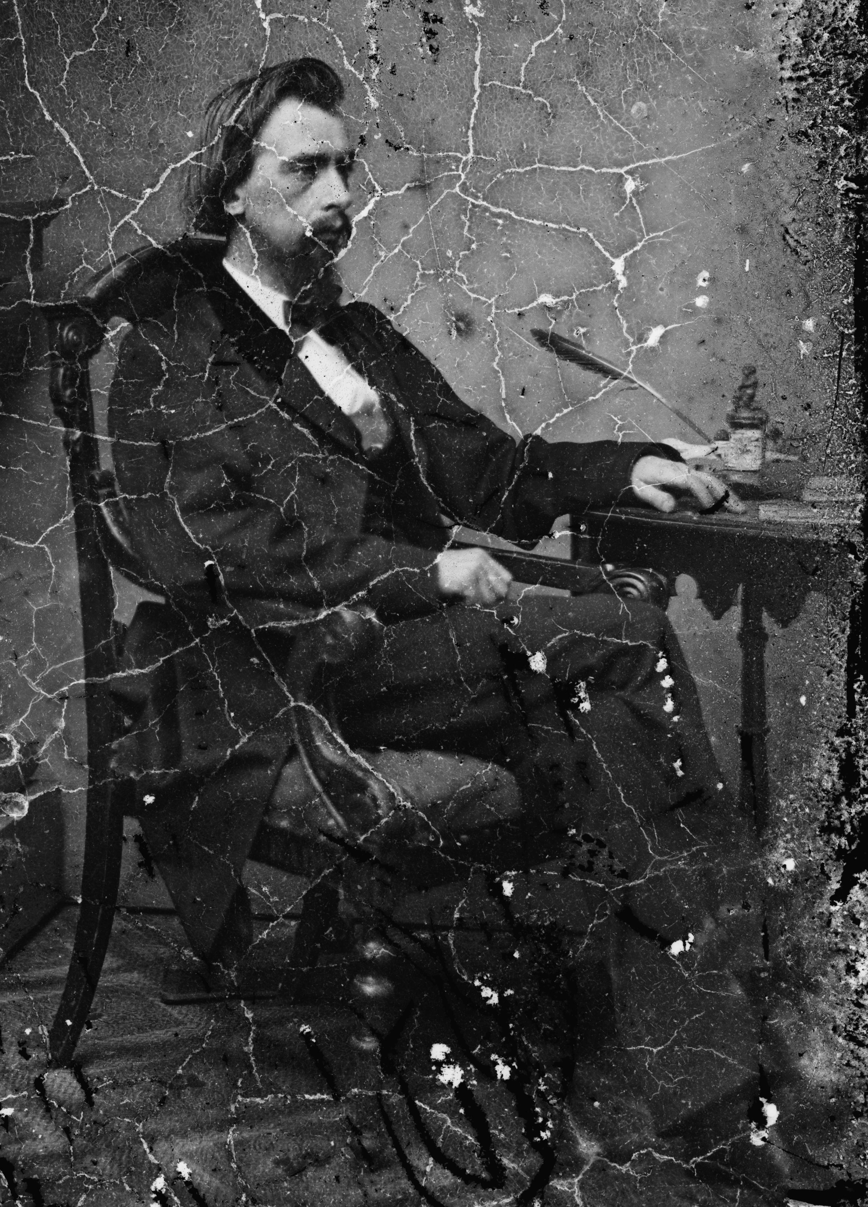 John George Nicolay. Library of Congress description: "John Nicholay".